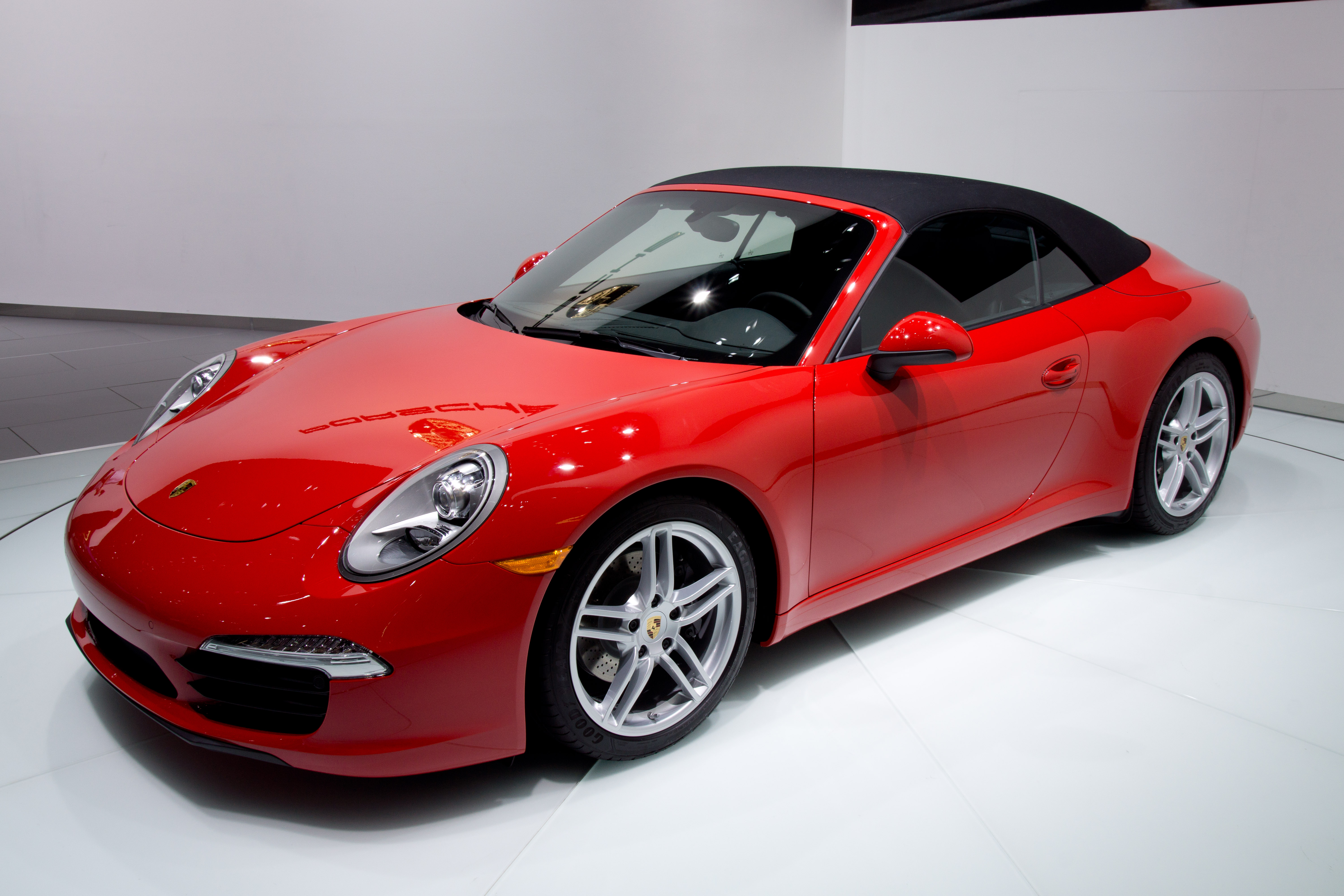 What a beautiful automobile, with absolutely timeless elegance in the design. A work of art